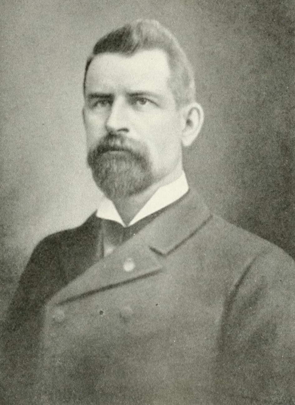 John A Pickler, South Dakota Congressman